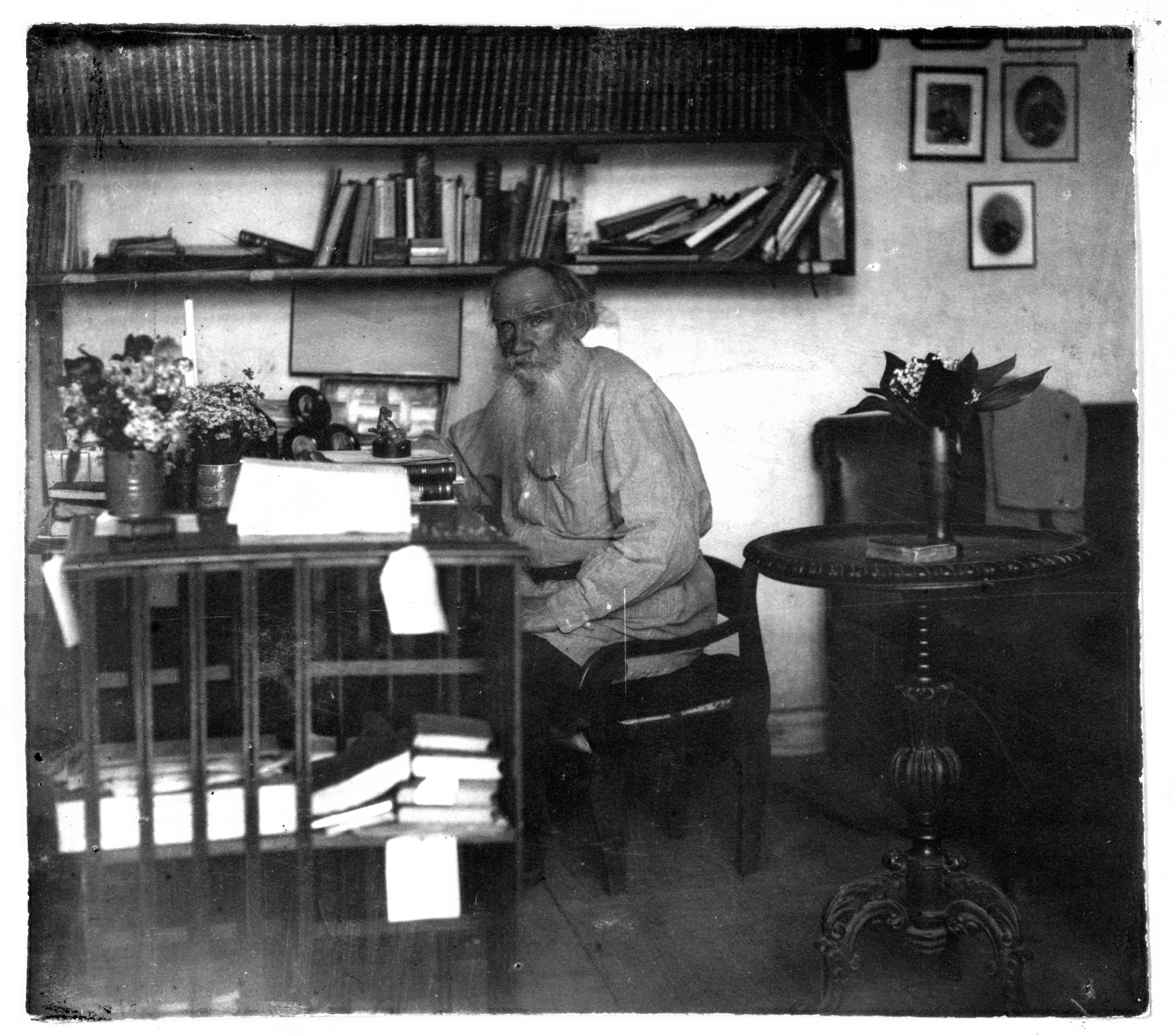 Leo Tolstoy in his office. CREATED/PUBLISHED: [1908 May]; CREATOR: Prokudin-Gorskii, Sergei Mikhailovich, 1863-1944, photographer. REPOSITORY: Library of Congress Prints and Photographs Division Washington, D.C. 20540 USA.